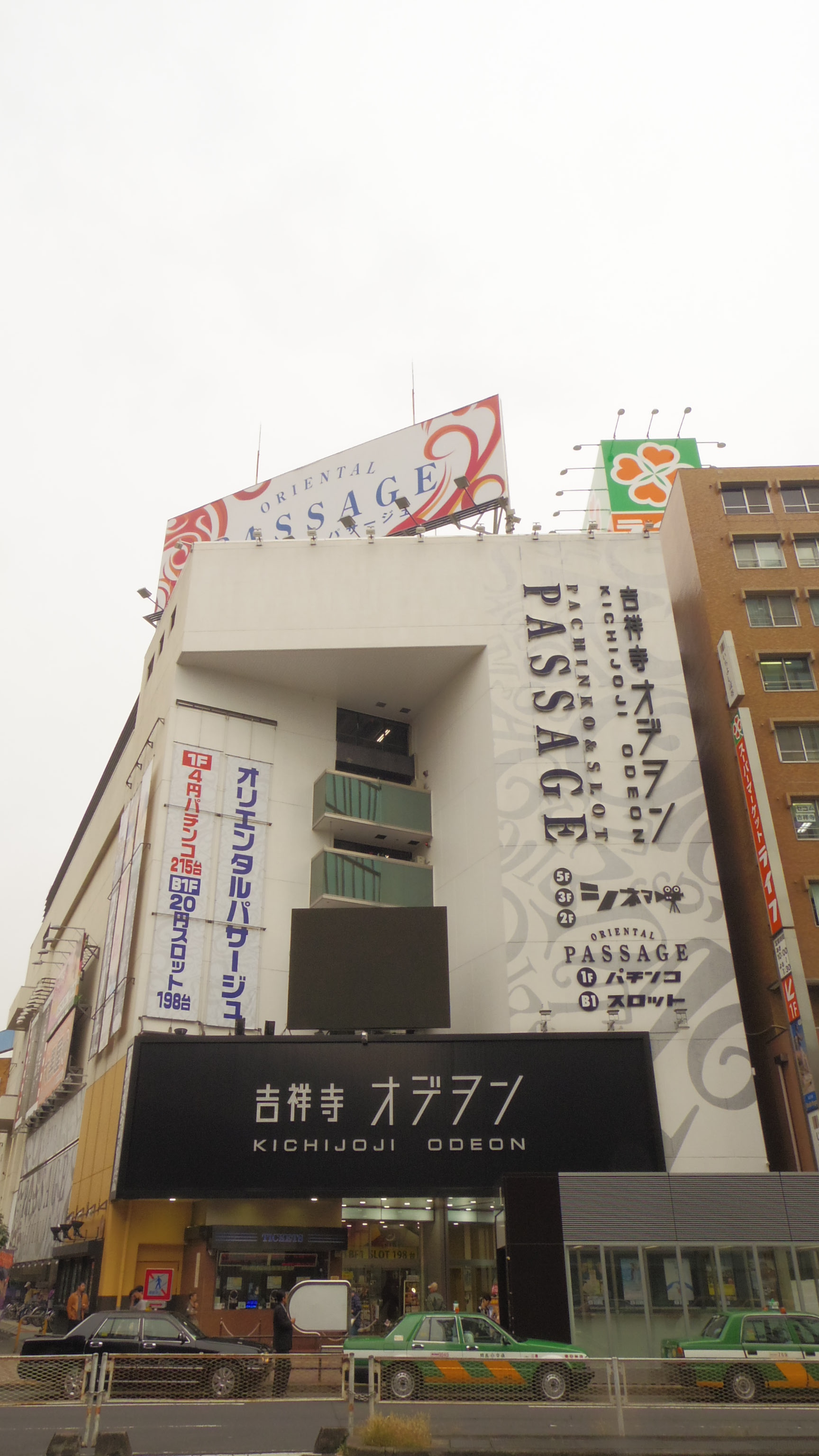 Cinema of Kichijoji "Kichijoji Odewon".